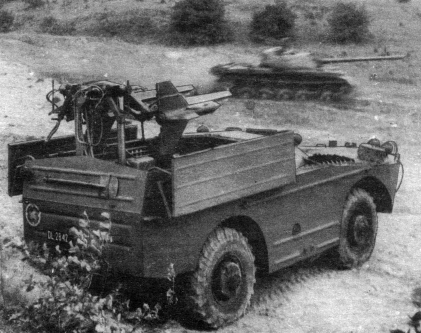 BRDM-1 with 3M6 missiles (2P27) (incorrectly named 2P26 in old publications)